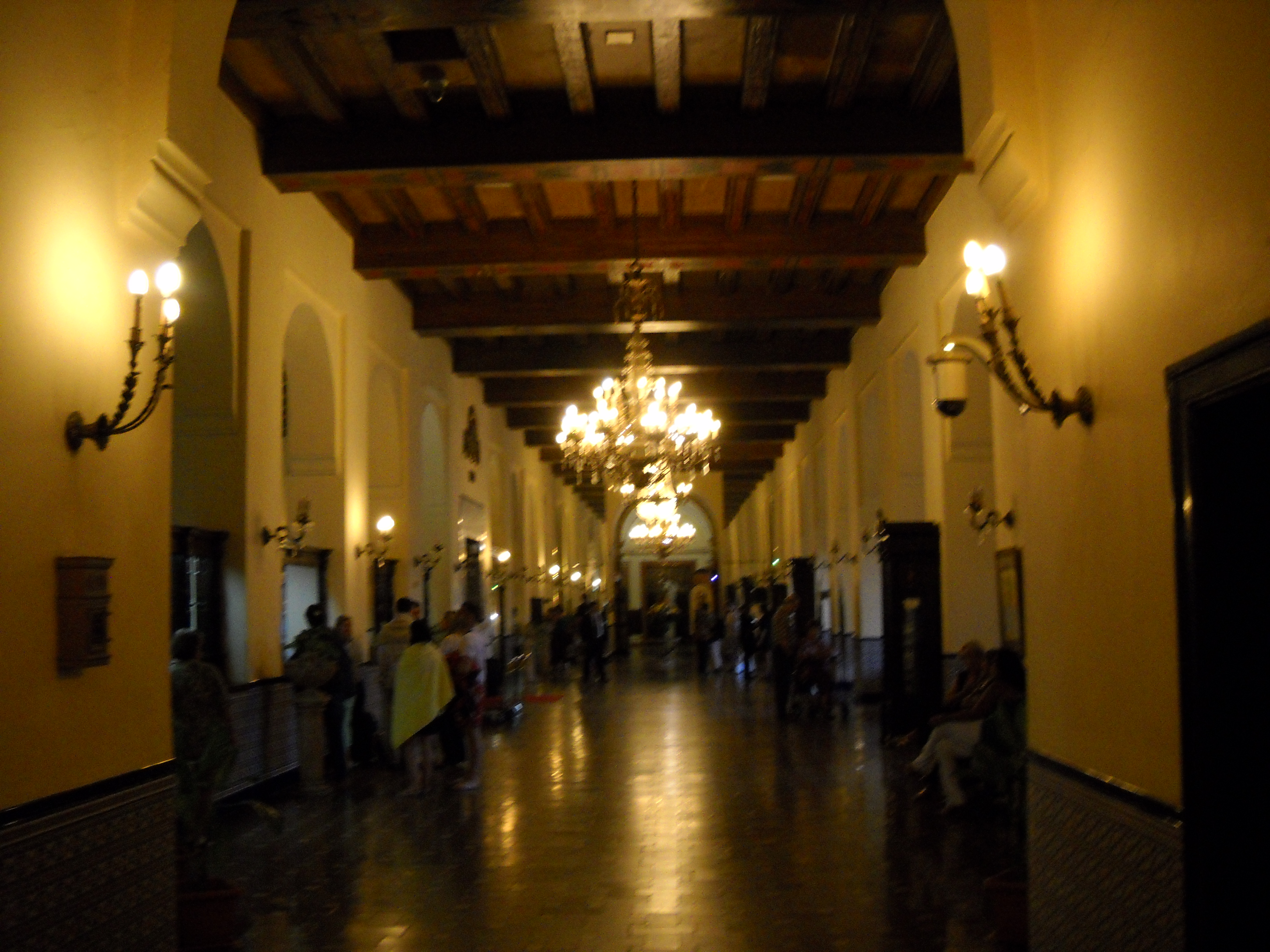 Lobby of the Hotel Nacional de Cuba in Havana